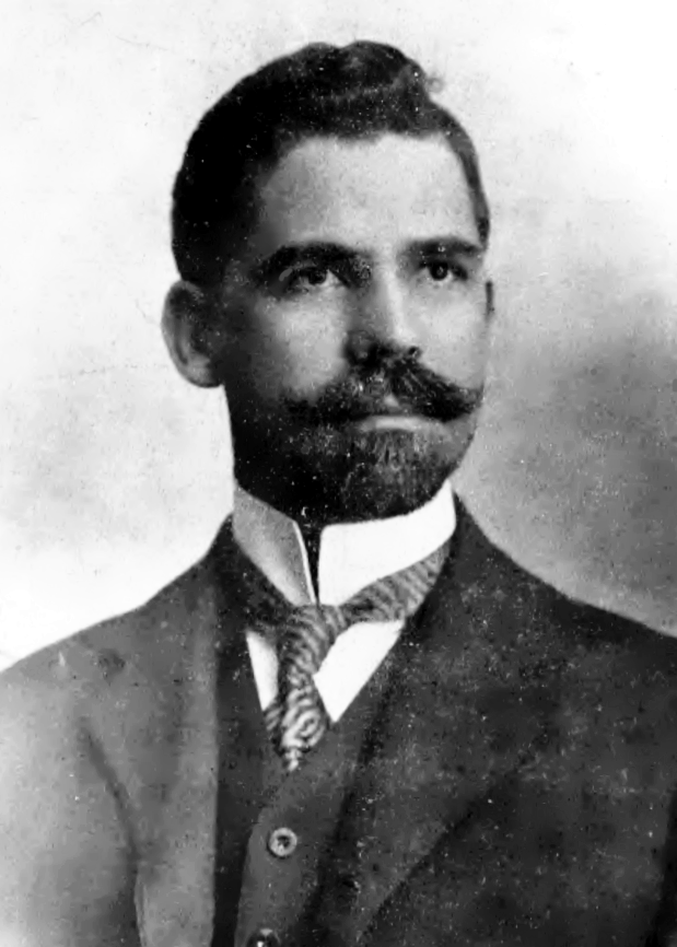 Washington Luís in 1914, when he was first elected mayor of São Paulo by his colleagues.